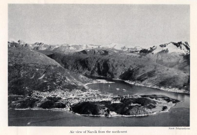 Image of Narvik, Norway, during World War II.